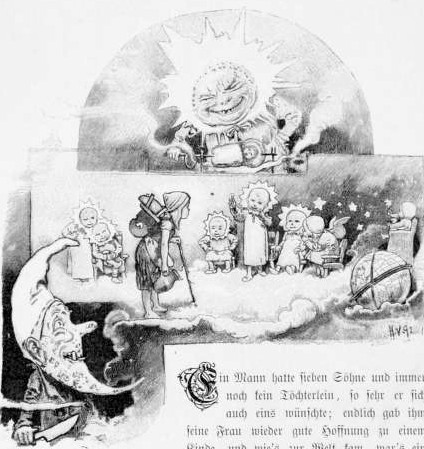 illustration of the Brothers Grimm fairy tale "The Seven Ravens"